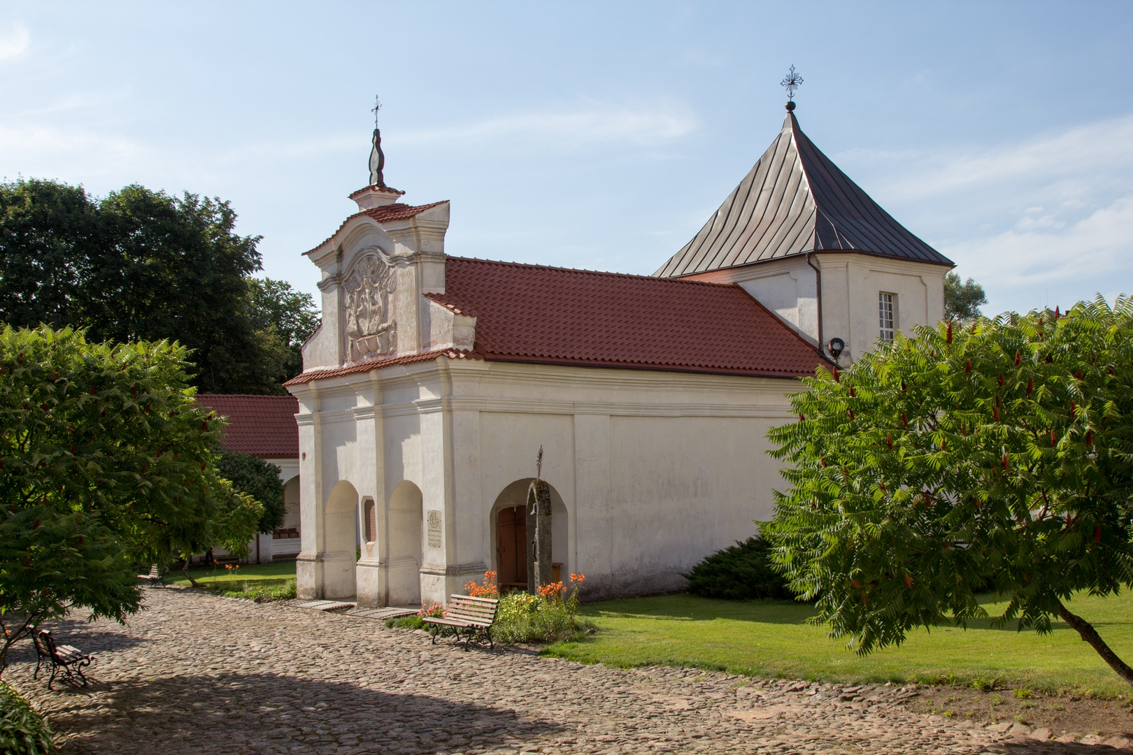 Tytuvėnai Church chapel (2013)